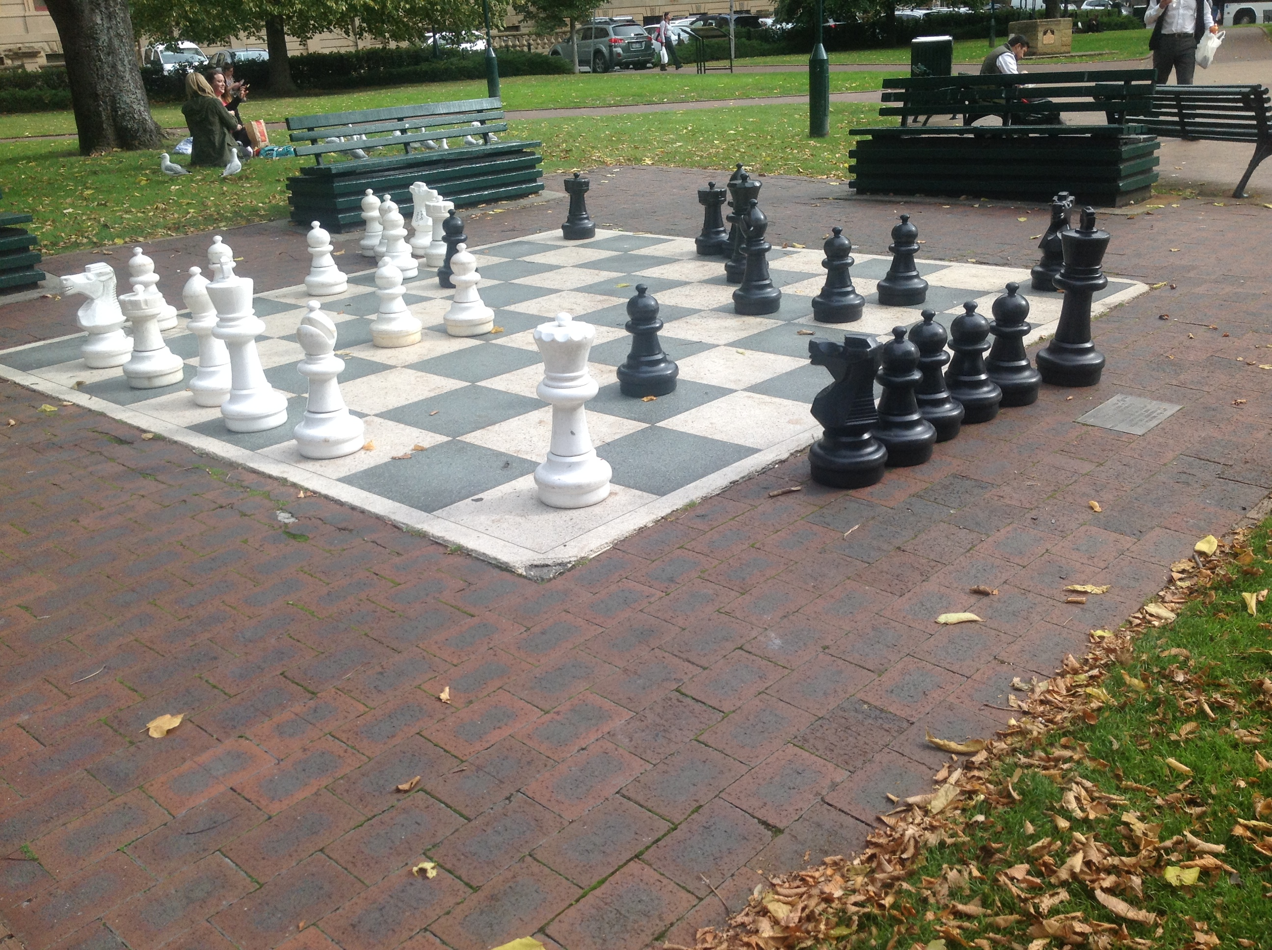 Chess Set in Franklin Square Tasmania